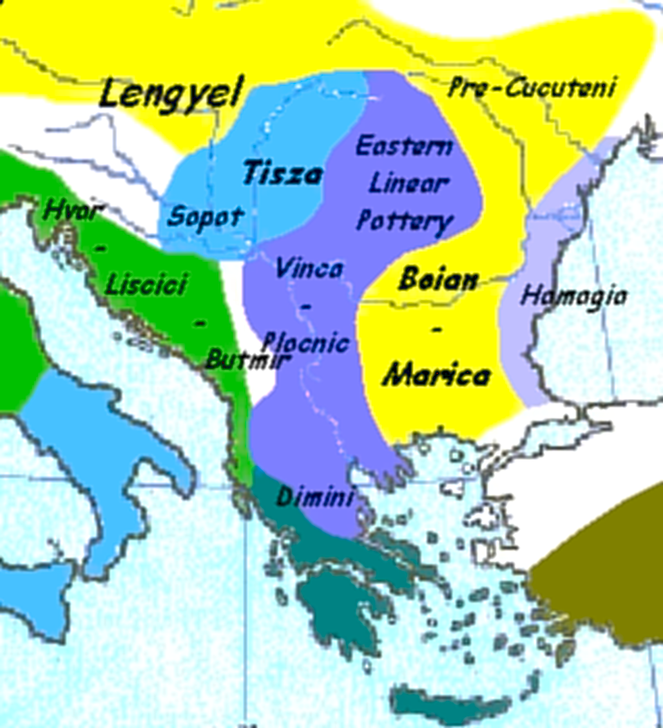 Main cultures from the late neolithic in the balkans. Detail from European_Late_Neolithic.gif